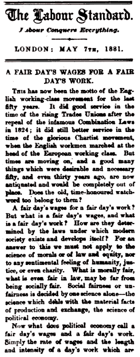 Article by Frederick Engels entitled "A fair day's wage for a fair day's work"